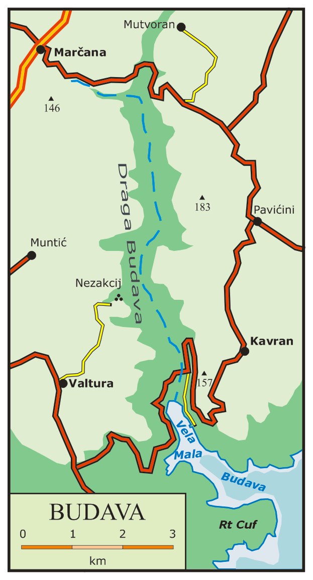 Budava schematic map, based on road, topographic and satellite maps.